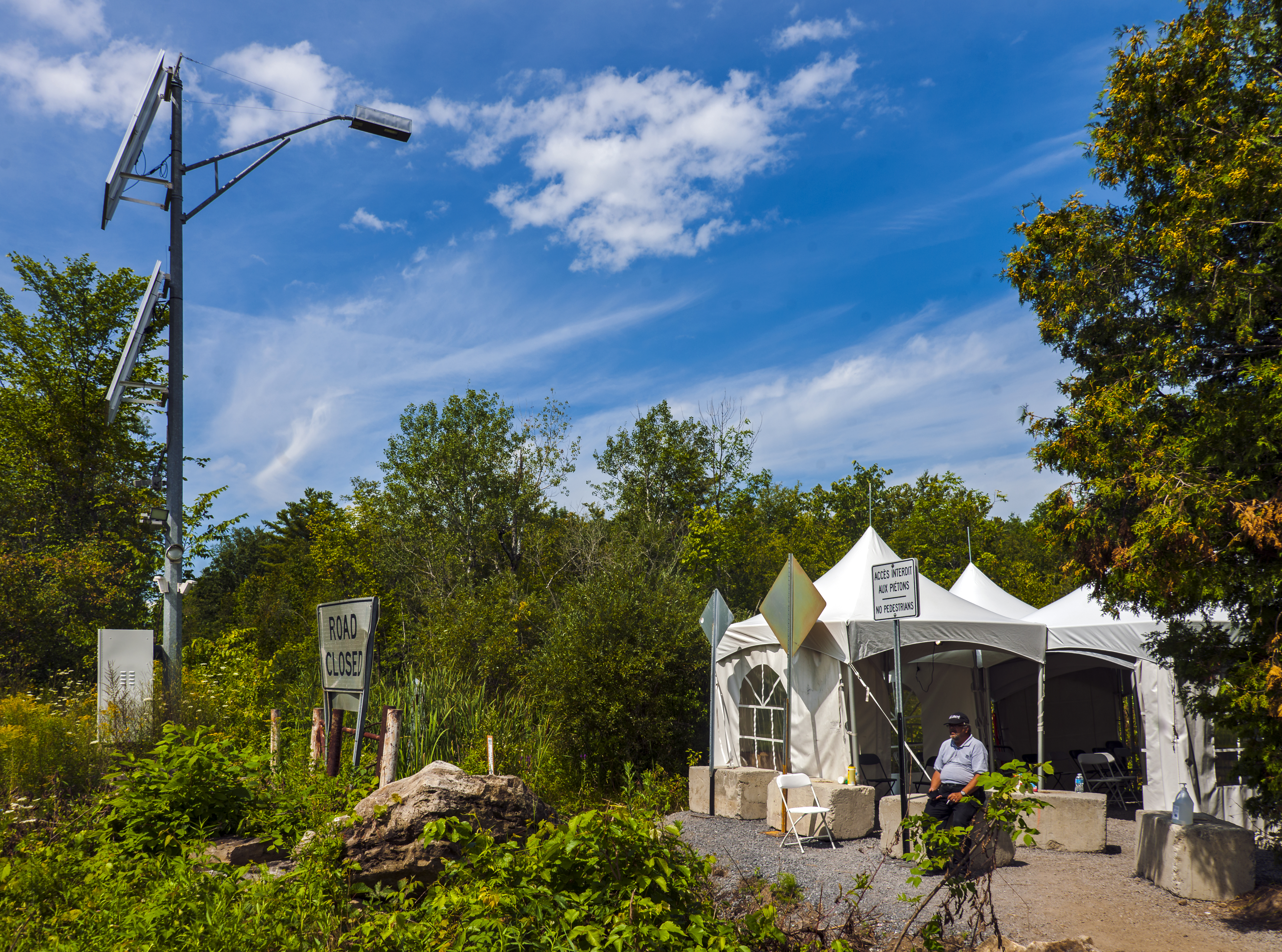 The US-Canadian border at the end of Roxham Road in Champlain, NY (right); pole on the left is for security cameras and other remote monitoring by U.S. Border Patrol. On the left side of the vista is Saint-Bernard-de-Lacolle, QC, where tents have been set up to accommodate the processing of asylum requests by U.S. non-citizen residents, who enter Canada illegally here, fearful of changes made to immigration regulations by the Trump administration.